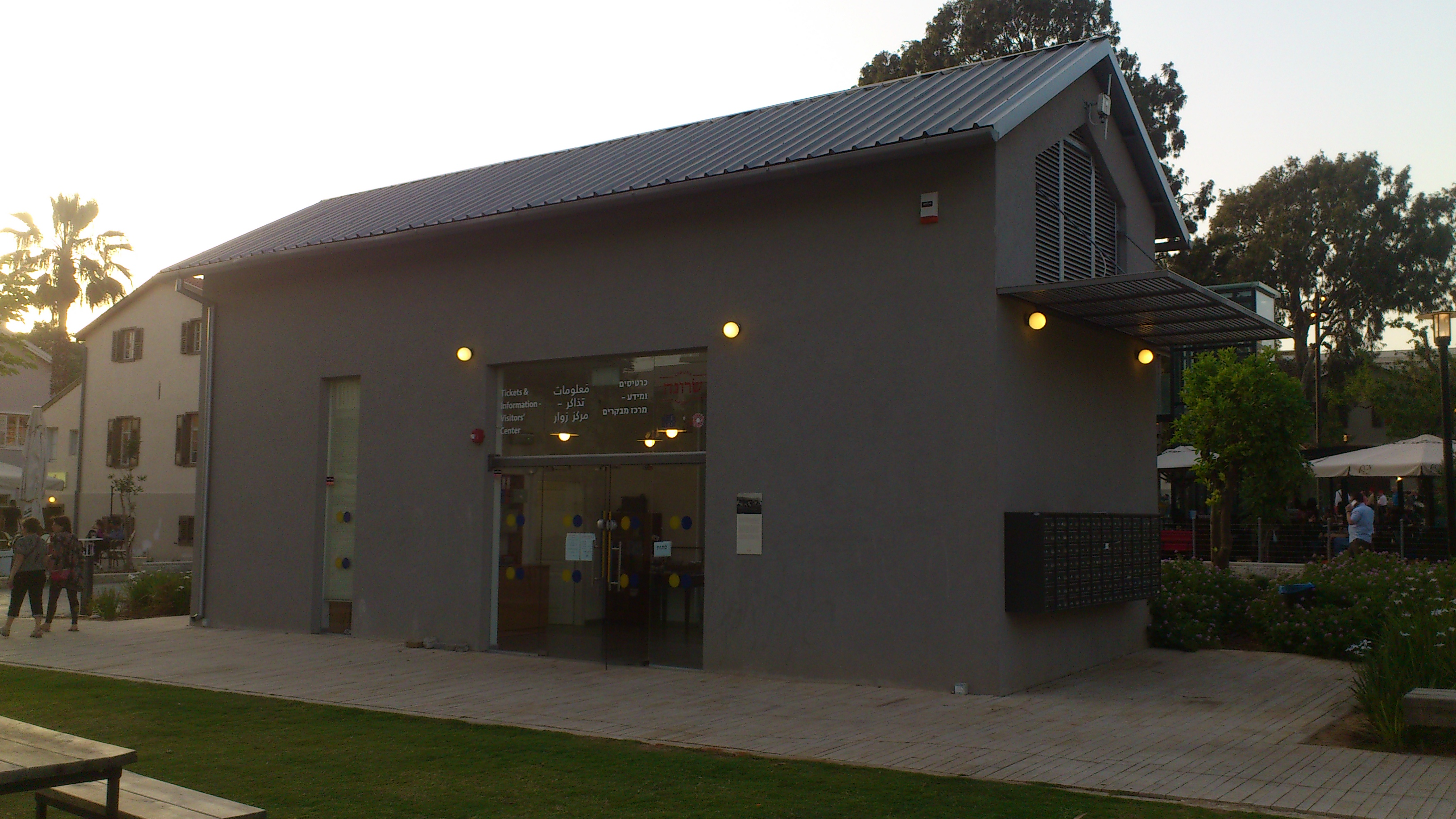 Sarona Visitor Center